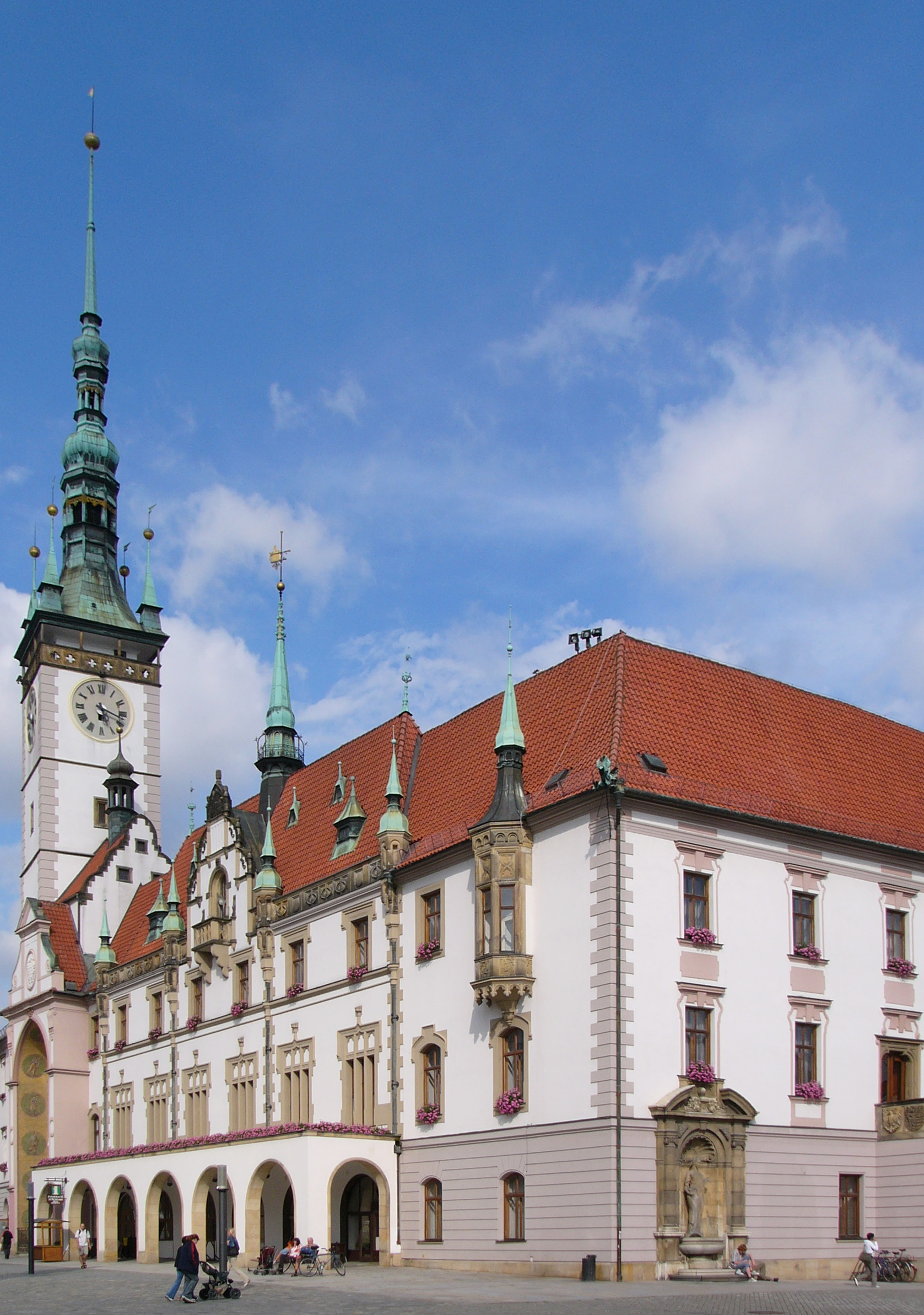 town hall with astronomical clock in Olomouc (Czech Republic).